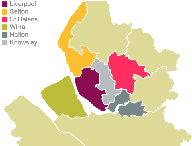 The six local authority areas combine to make up Liverpool City Region of 1.5 million people.